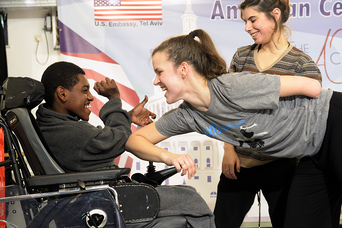 At Vertigo Integrated Dance and Vertigo Dance Company. Workshop in Physically Integrated Dance. AXIS Dance Company will introduce this exciting dance form for people with and without physical disabilities. Using creative movement, improvisation and modern dance techniques we will explore solo, duet and ensemble material. AXIS Dance Company Changes the Face of Dance and Disability. Pioneering a new dimension of dance - a revolutionary collaboration between dancers with and without disabilities. The U.S. Embassy in Israel initiated a program on the integration of people with disabilities in dance, featuring the celebrated American AXIS Dance Company. The Company integrates professional dancers with and without disabilities, creates beautiful art, and works with communities to promote integration and break stereotypes about disabilities. In Israel AXIS gave workshops, master classes, and lecture demonstrations throughout the country to mixed audiences of adults, youth, and educators from all abilities, ethnic, and socio-economic backgrounds. The program was warmly embraced by local communities and attracted considerable press interest.